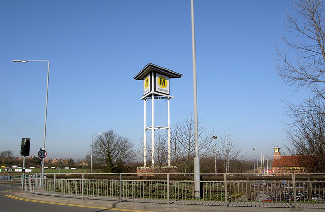 Morrison's supermarket Retford